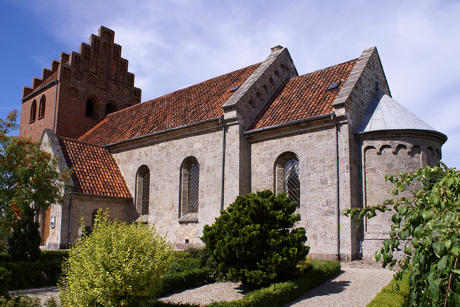 Sonnerup Church, Kirke Sonnerup (Lejre Kommune), Denmark